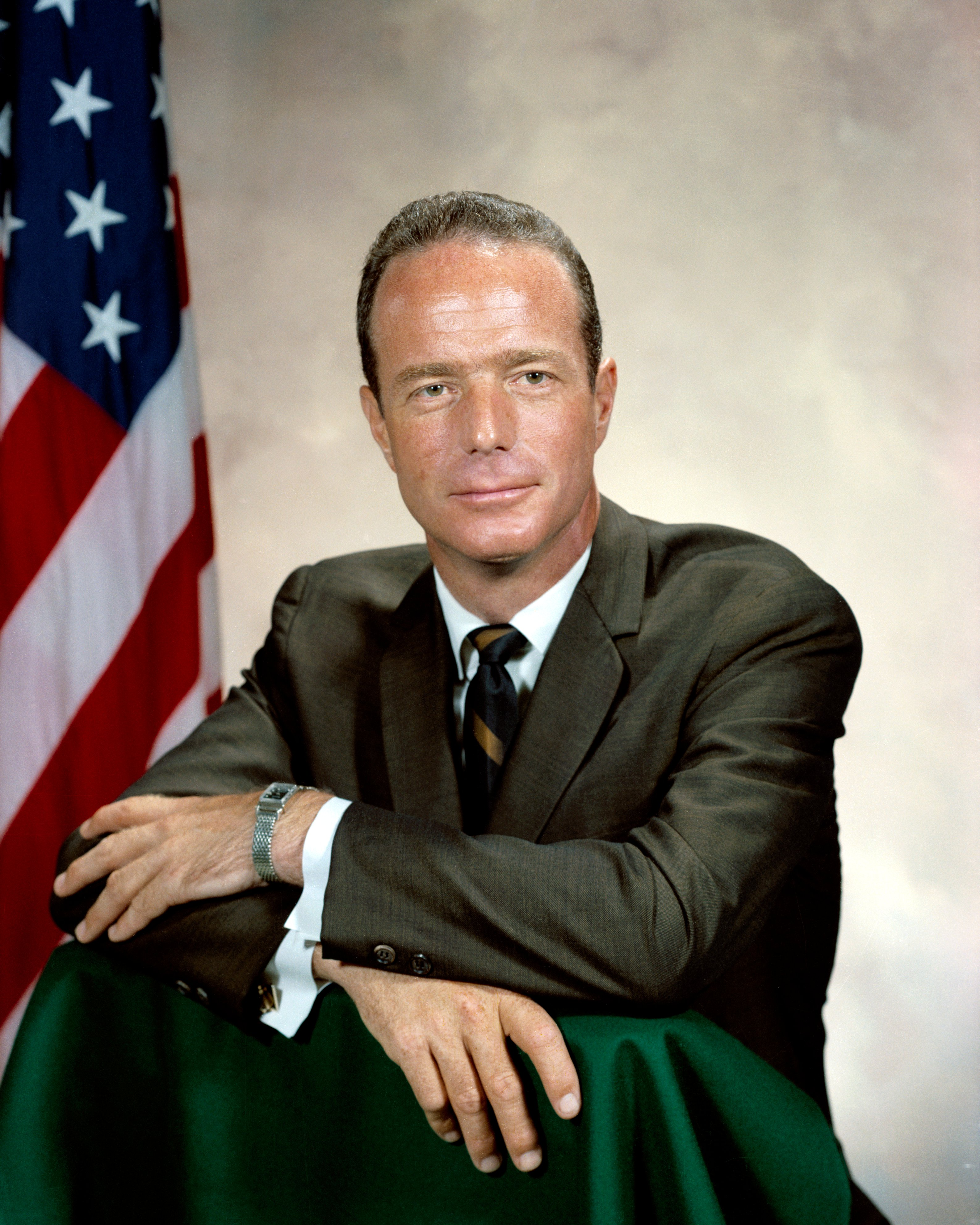 Portrait of Astronaut Scott Carpenter. Image ID: S64-34357